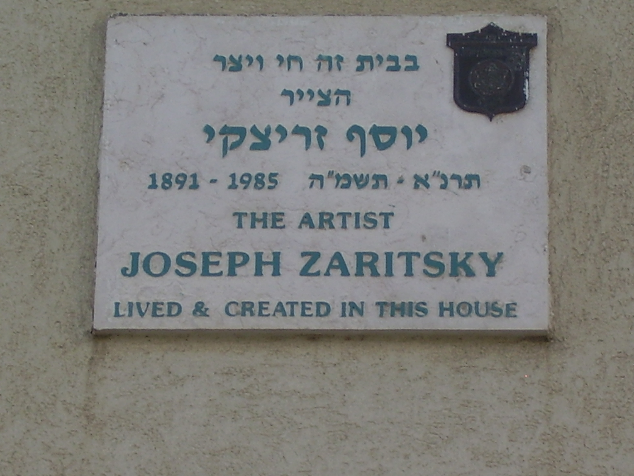 memorial plaque on the house of the painter joseph zaritsky in tel aviv לוחית זיכרון על ביתו של הצייר יוסף זריצקי ברח' מאפו 18 בתל אביב